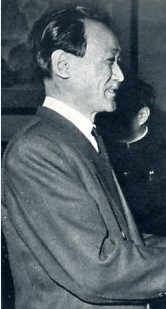 Hakamada Satomi (1904 - 1990)